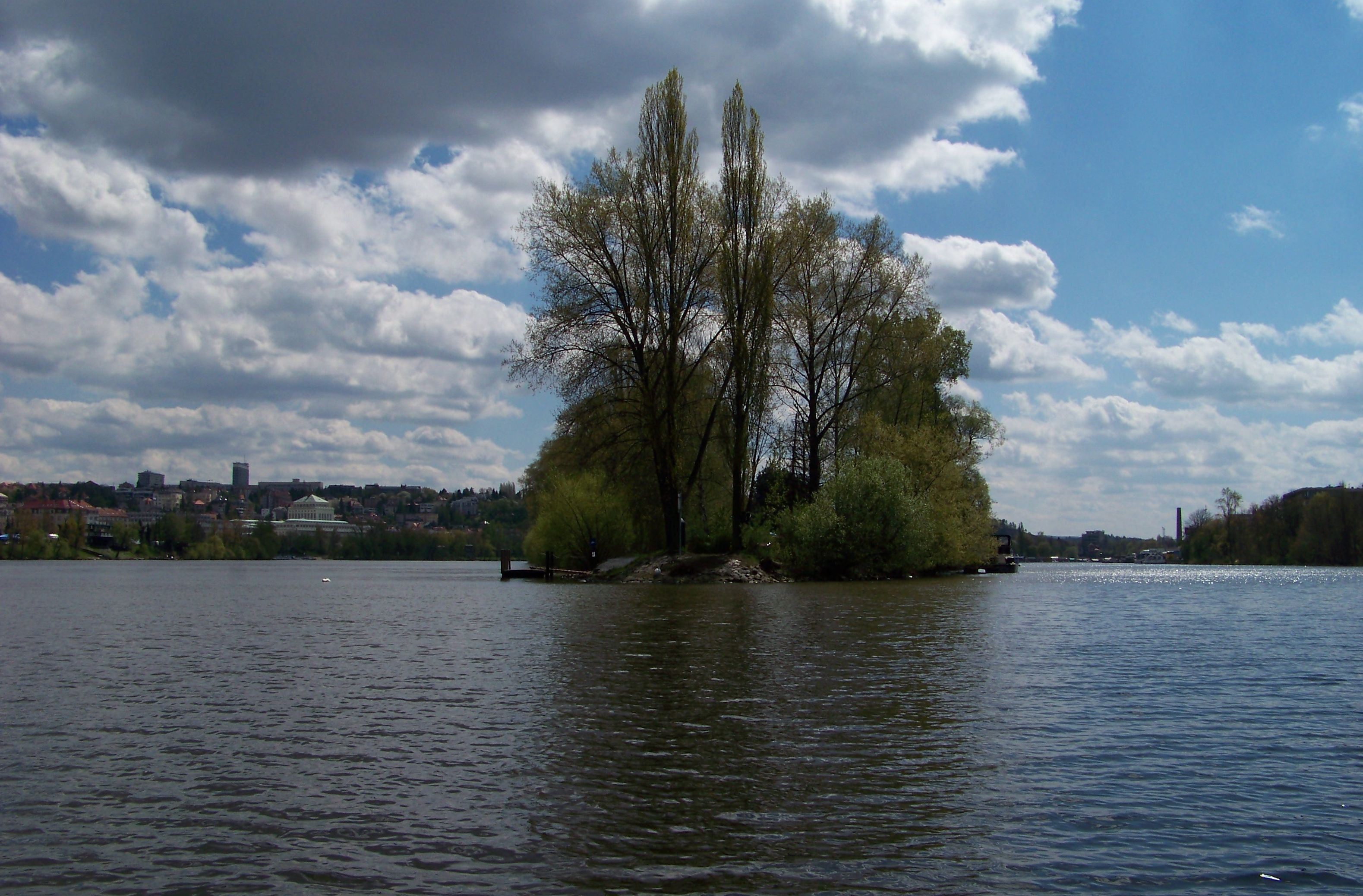 Prague-Smíchov, the Czech Republic. Vltava river, Císařská louka island.